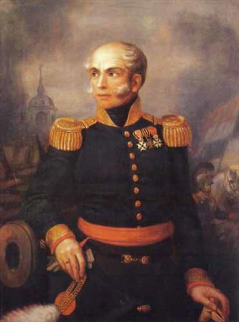 portet of Bernard Dibbets